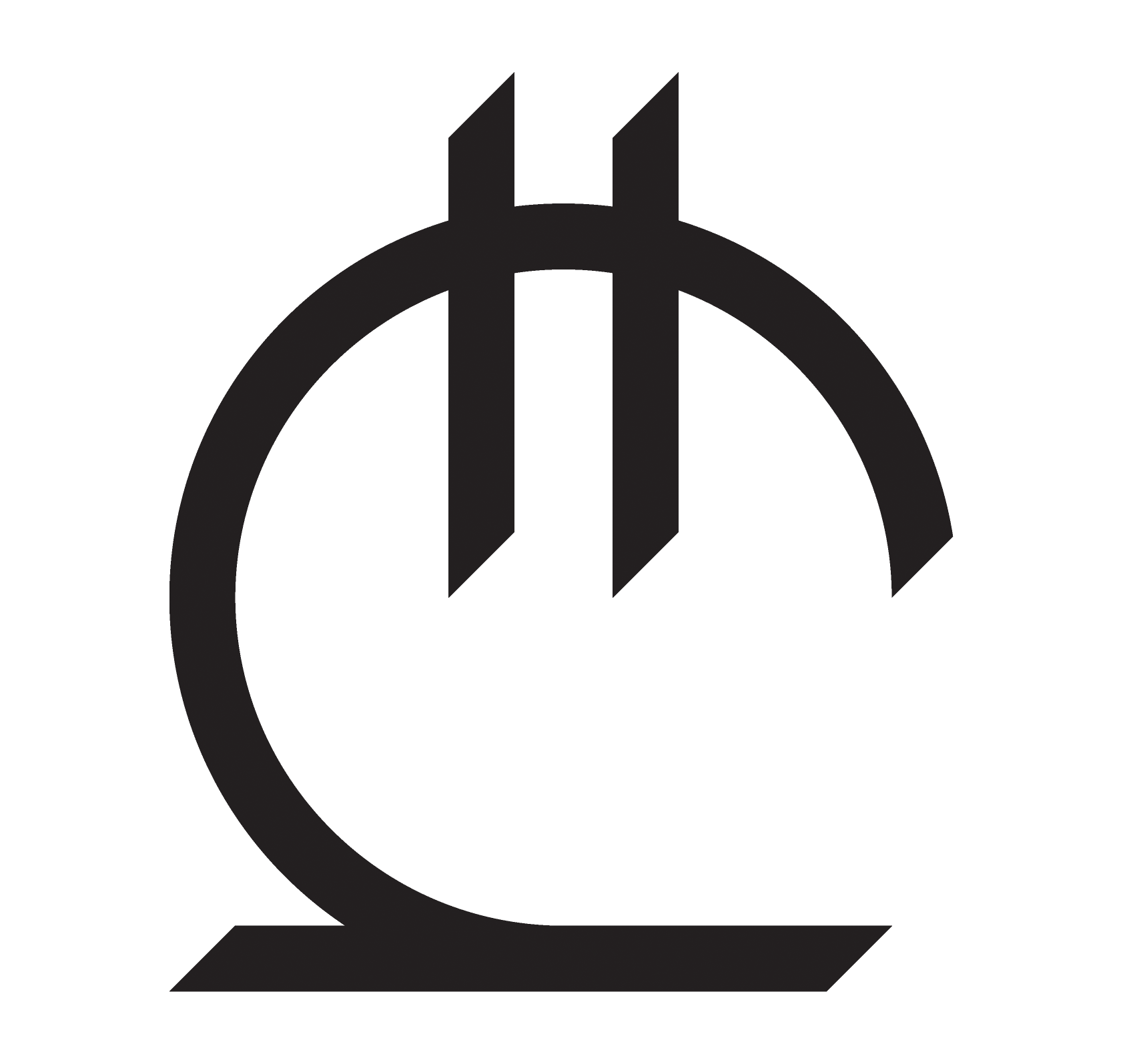 Sign of Georgian Lari